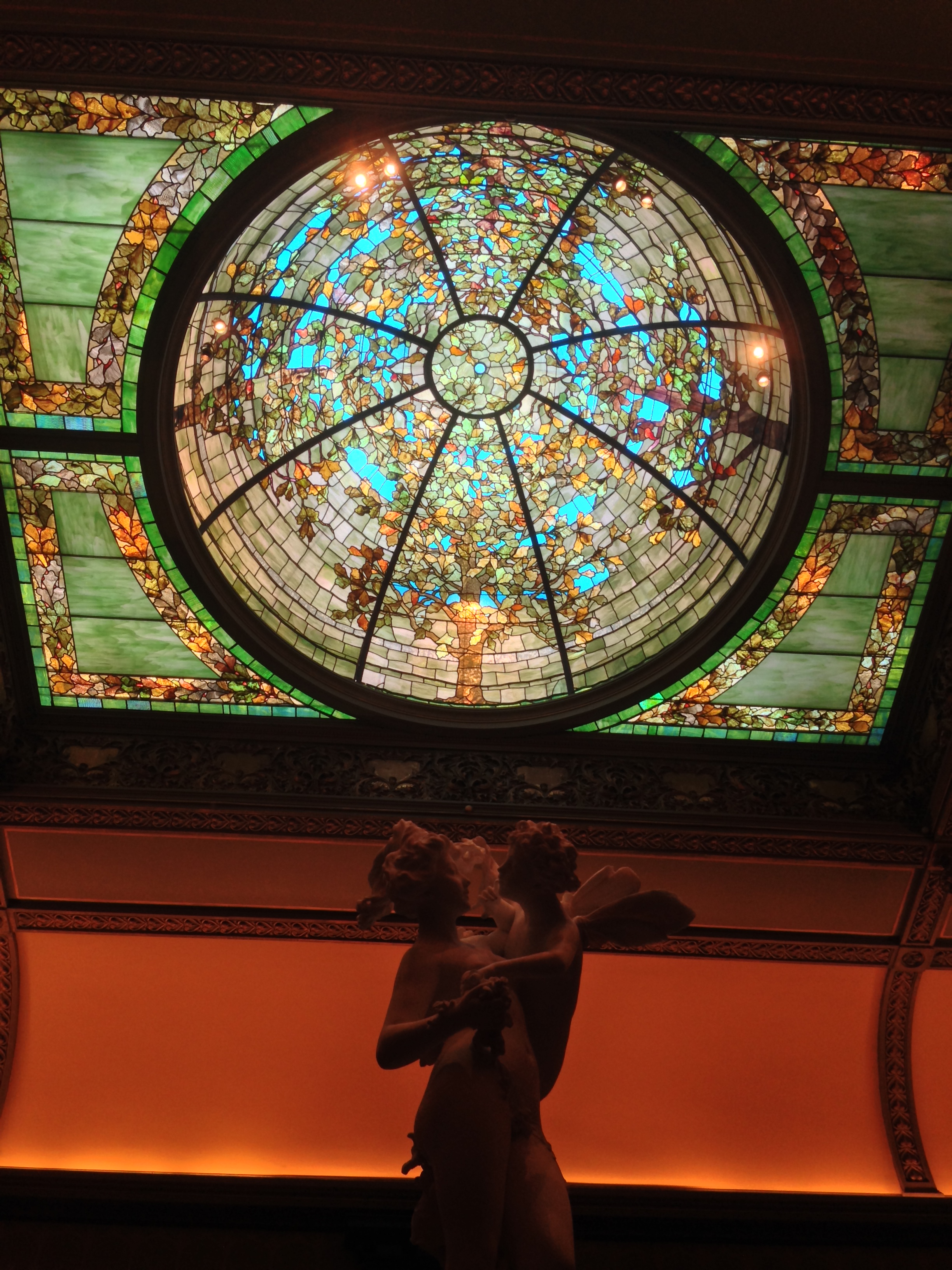 sculpture and stained glass at Richard H Driehaus museum